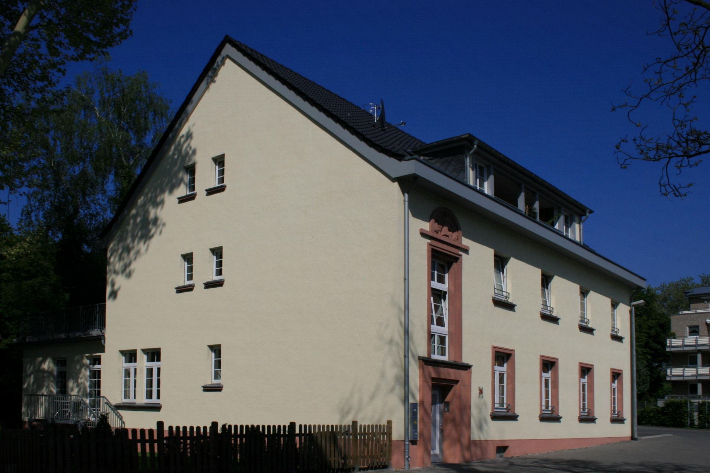 Cultural heritage monument No. M 058 in Mönchengladbach